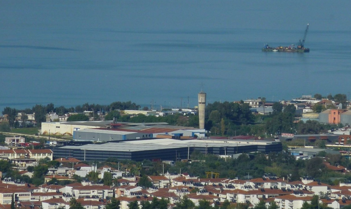 Partial view of "Ergatikes Katikies Paralias Patras" (Labour Houses), Paralia Patras, Achaia, Greece.